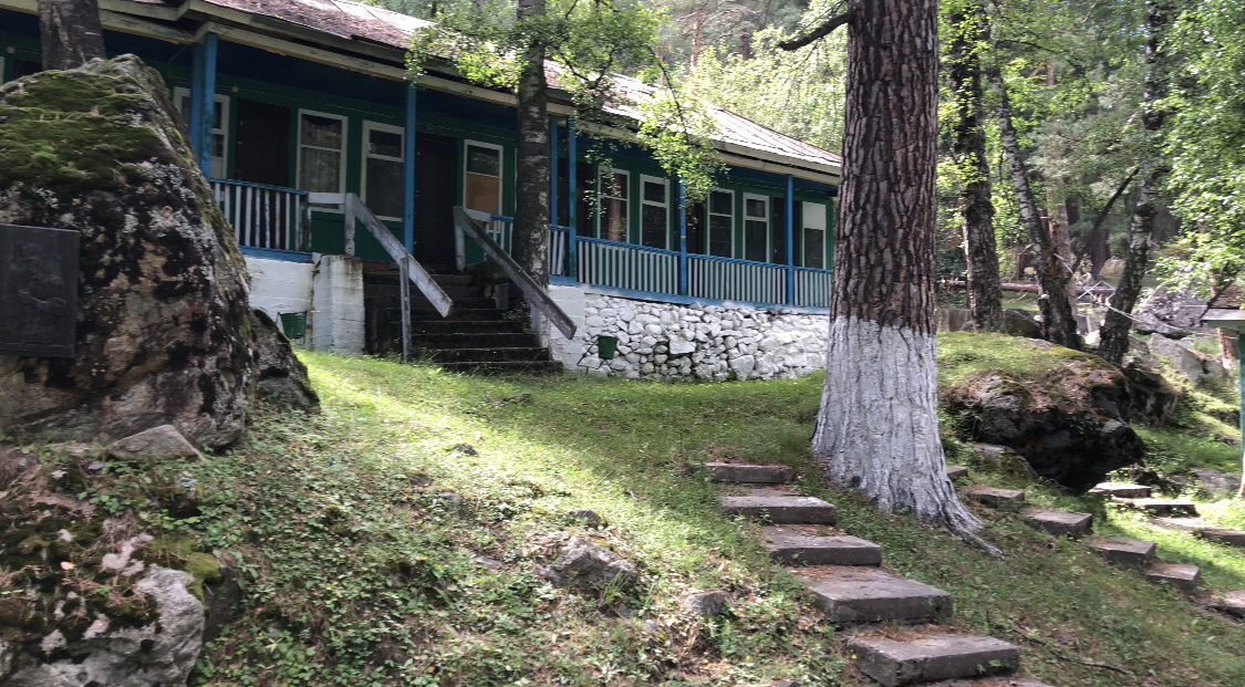 recreation center "Shkhelda", Russia